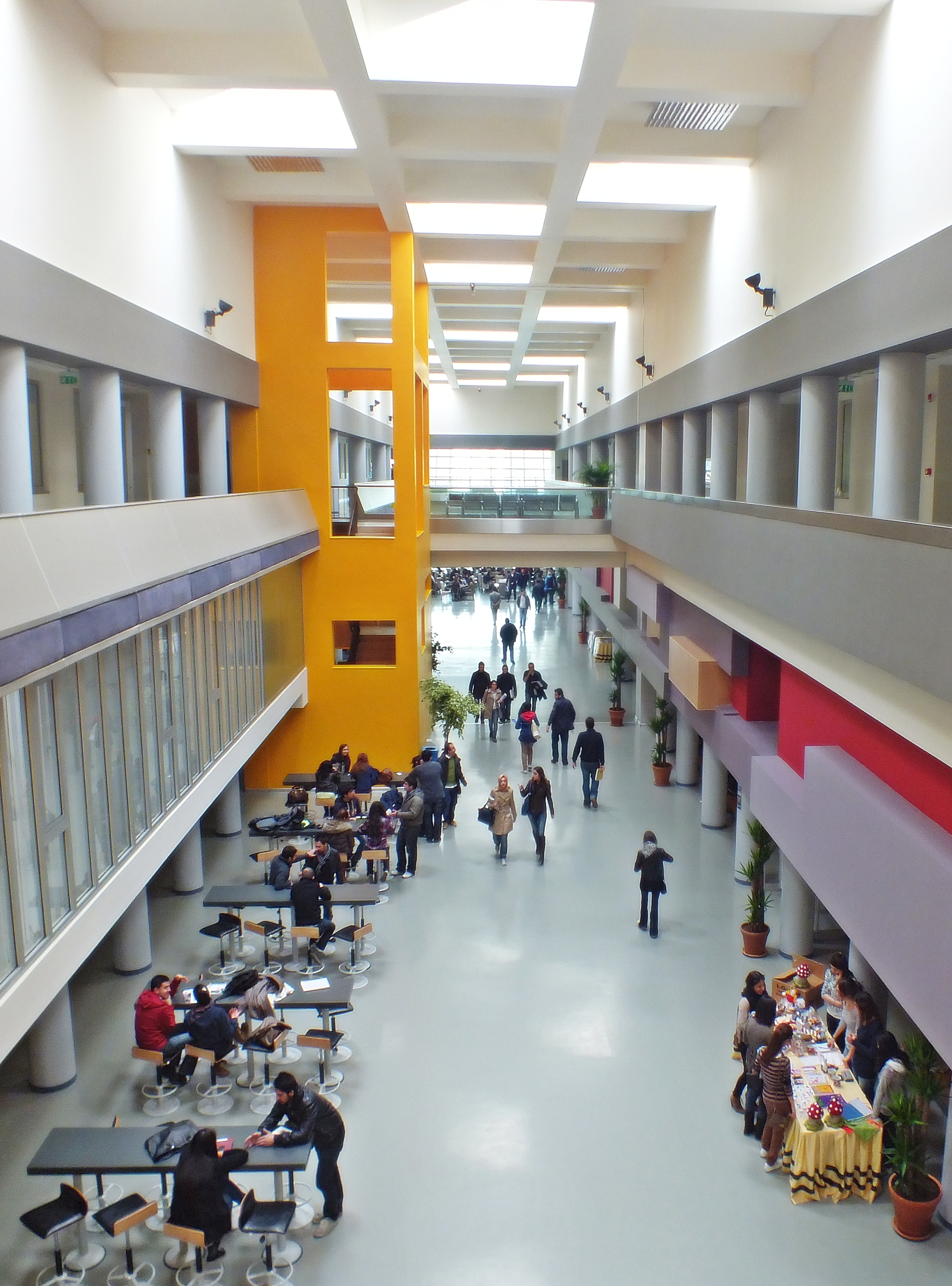 A view of the Common Area of Çankaya University Turkuaz campusTürkçe: Çankaya Üniversitesi Turkuaz Kampüsü'nün Ortak Alanı'ndan bir görünüm